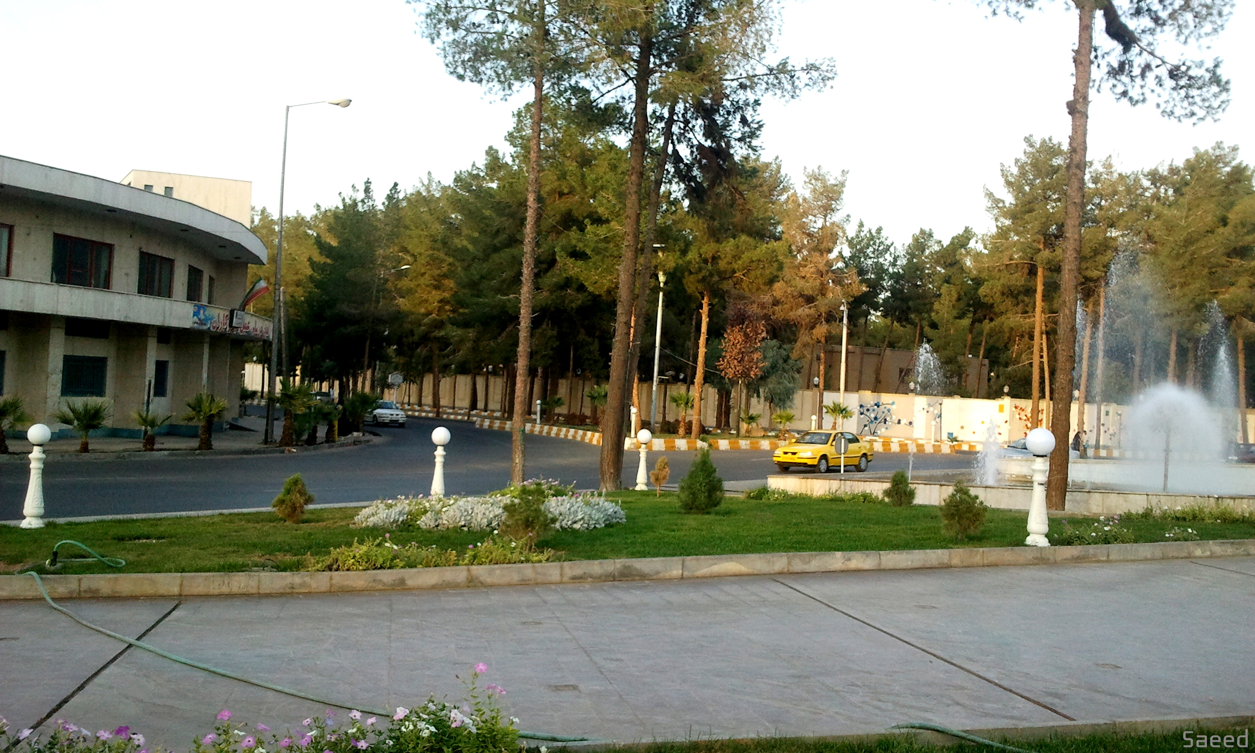 Zahedan